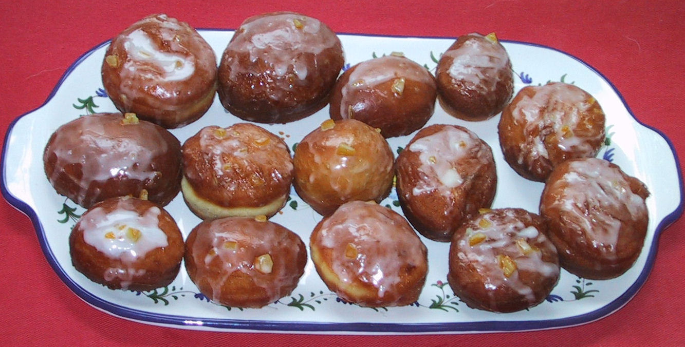 Homemade paczki. Decorated with icing and orange rinds